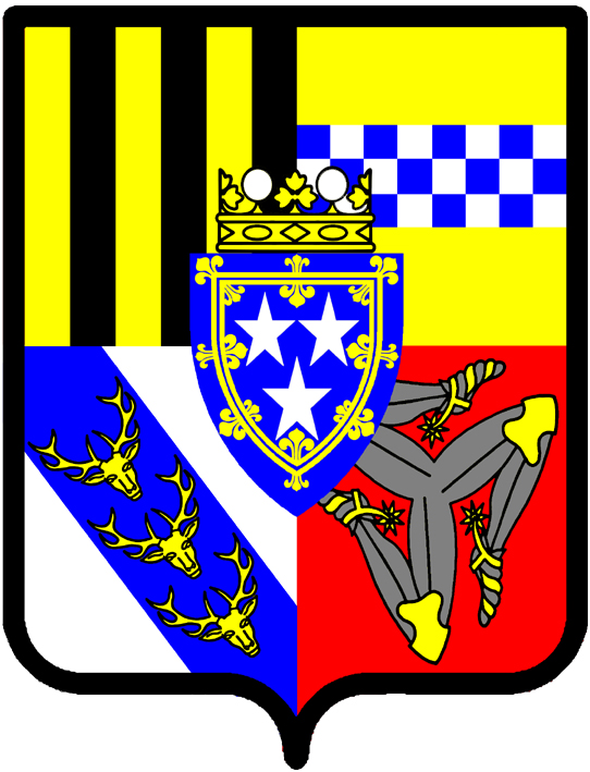 Quarterly ... over all an escutcheon en surtout azure three mullets argent within a double tressure flory or, ensigned of a marquess's coronet - Murray, Duke of Atholl, Scotland (escutcheon en surtout for the Chiefship of the Name of Murray and the Marquessate of Tullibardine)